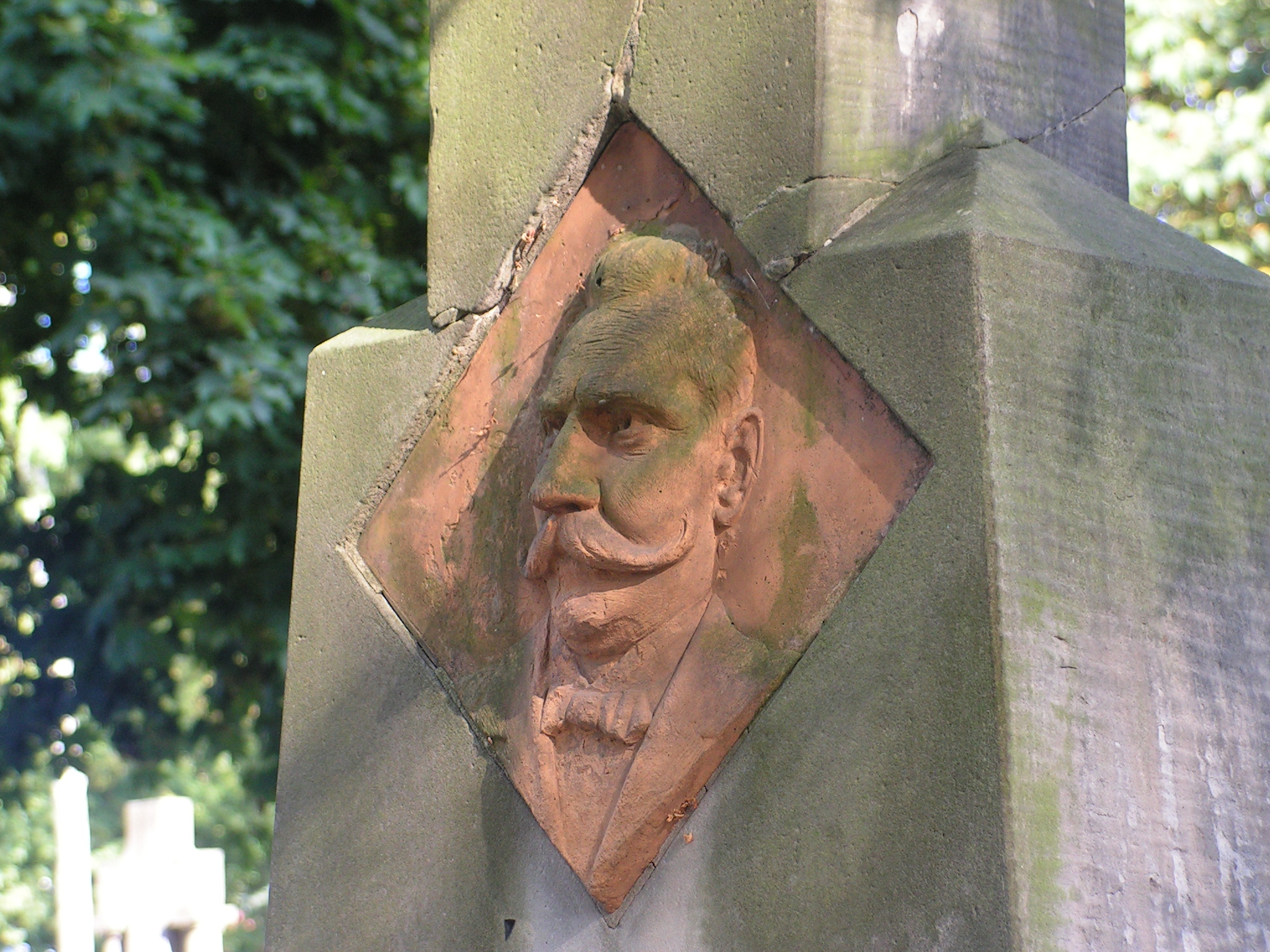 Relief with bust of Konstanty Skarbek (1860-1919) on his grave at Communal Cemetery in Włocławek.